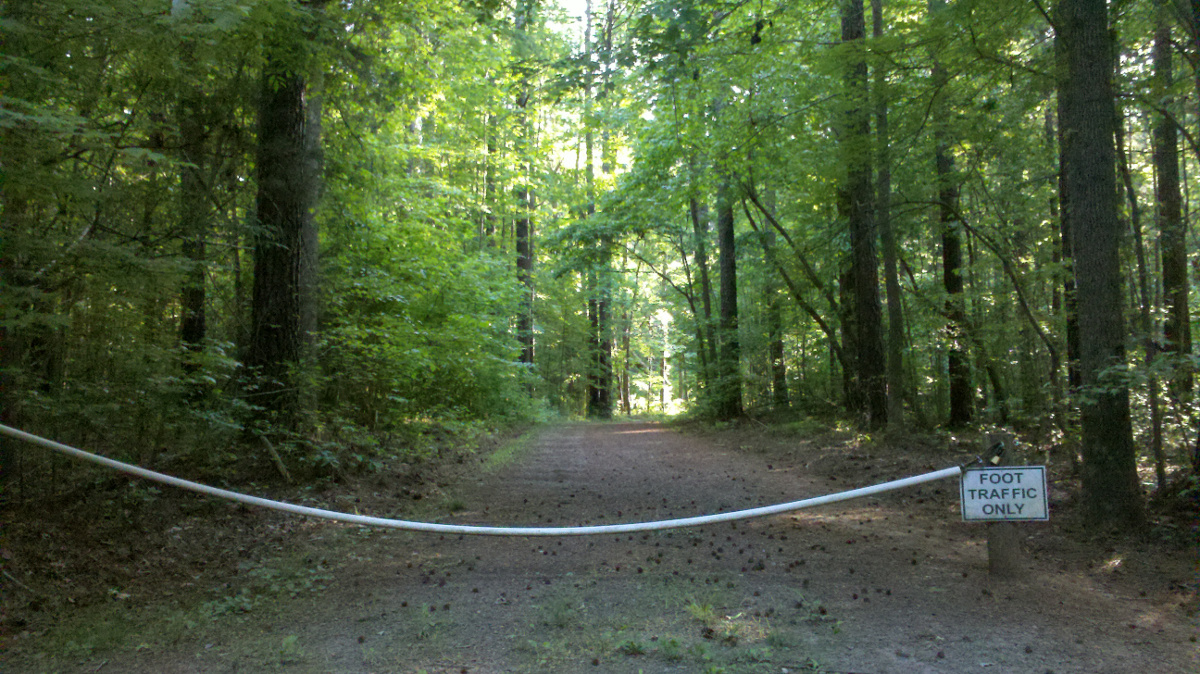 Northwest Park, Chatham County NC, USA, May 2013. Trail Entrance.